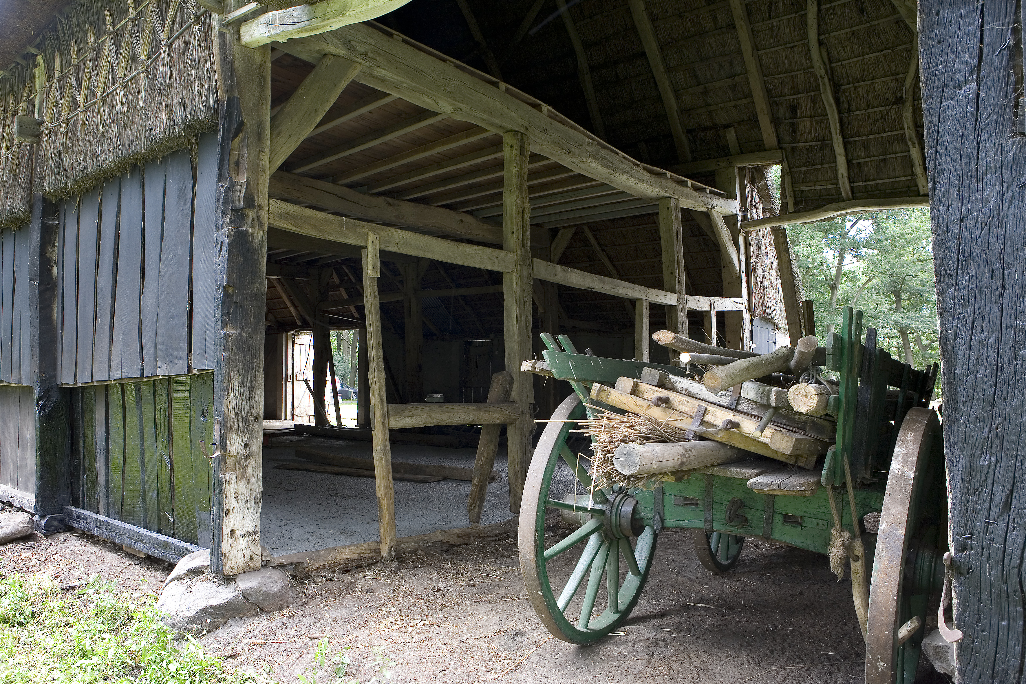 Barn on Schoonbeek, Drenthe, Netherlands. The thatch-like wall covering is called vlechtwerk. The posts land directly on the foundation stones and the sills are called interrupted sills because they fit between the posts.